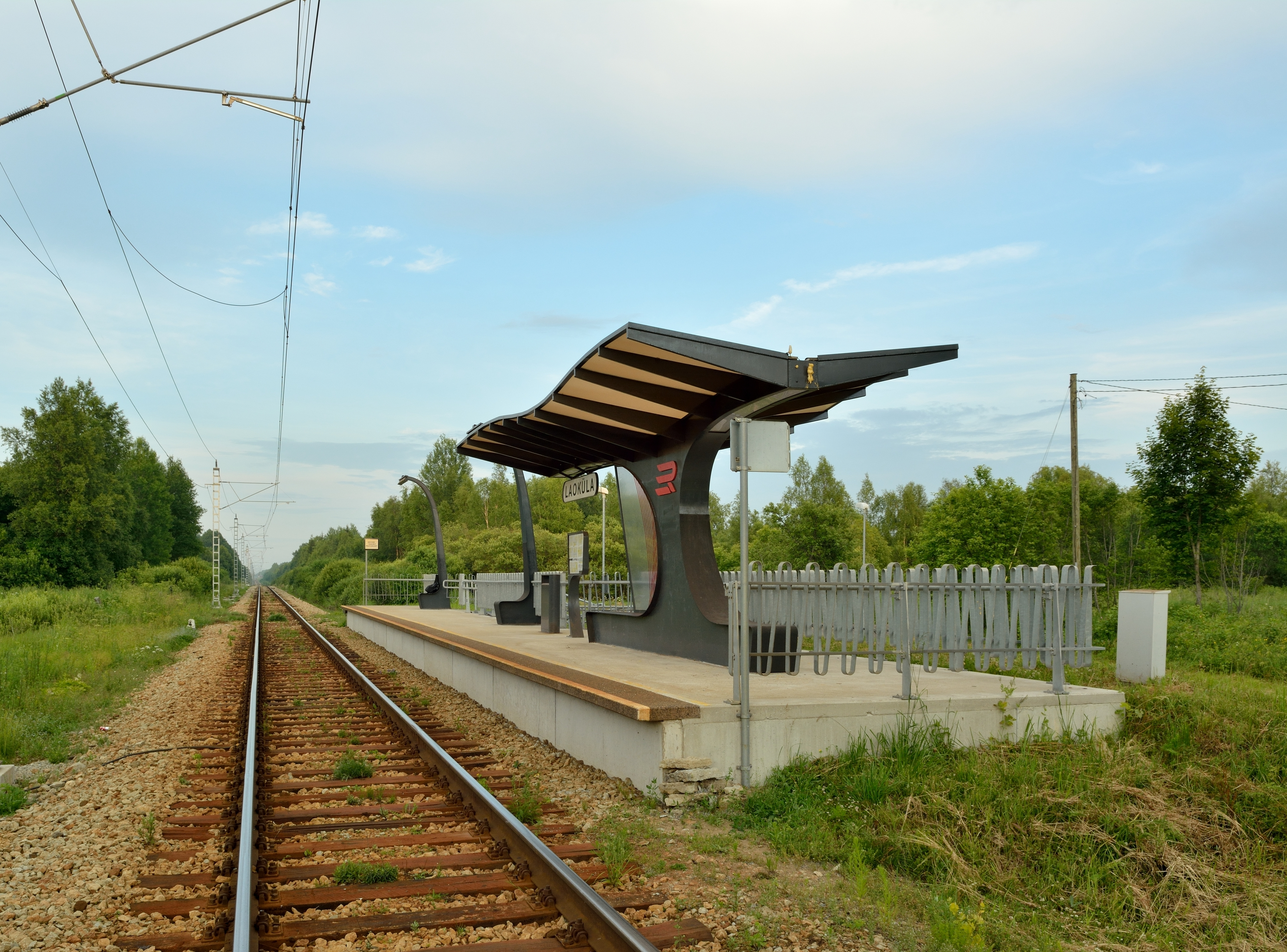 Laoküla train stop